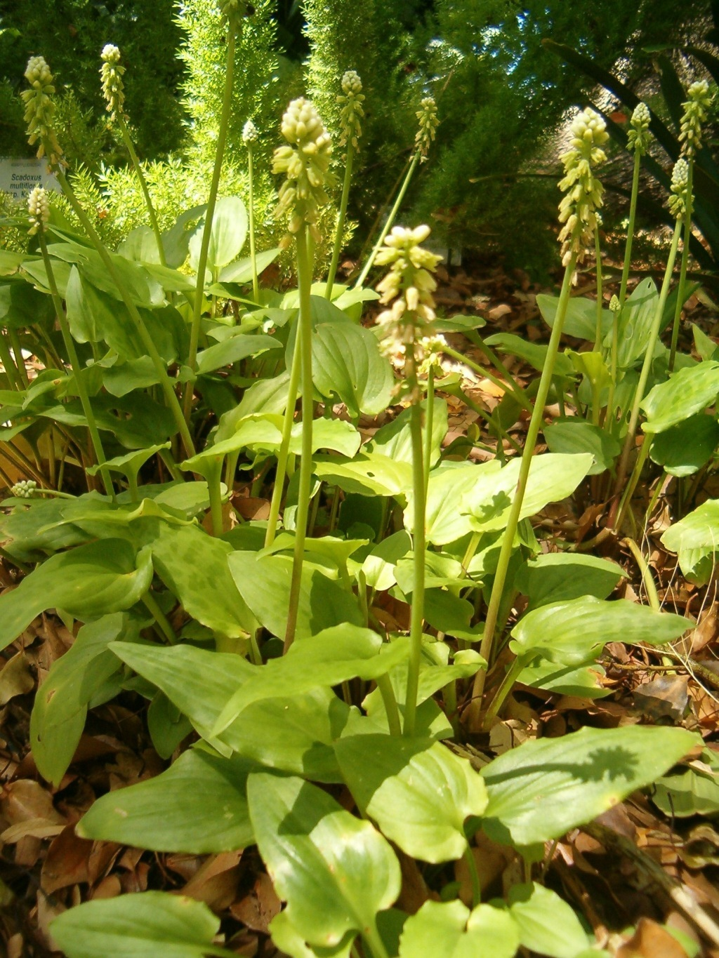 At Kirstenbosch National Botanical Gardens Species Drimiopsis maculata